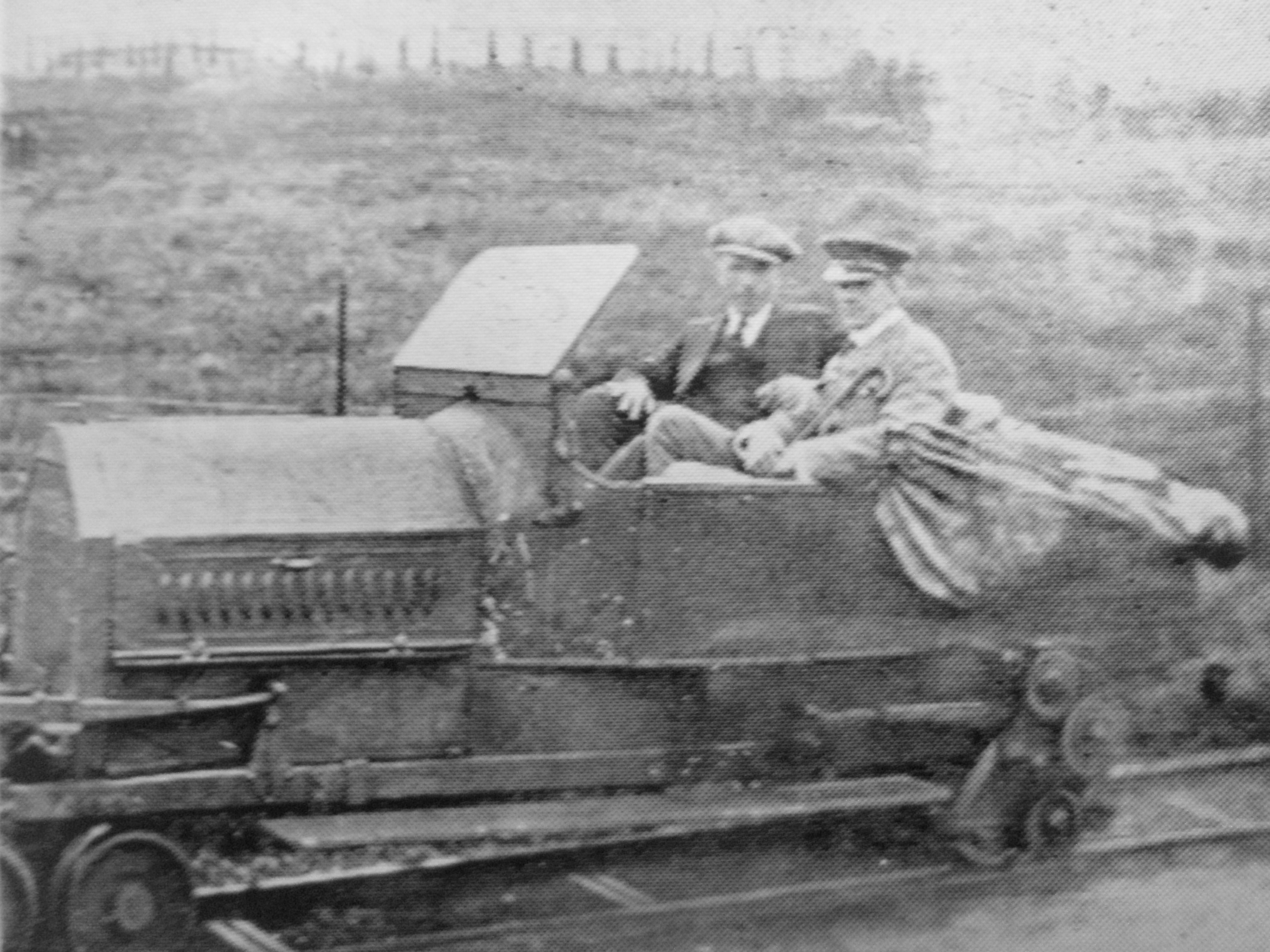 2ft gauge Lancia railcar of Marconi Station Railway